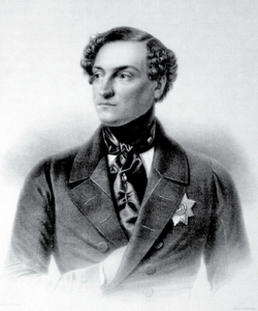 graf Ivan_Matveevich Tolstoy - (1806-1867)